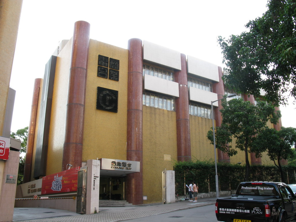 Commercial Radio Hong KongBân-lâm-gú: Hiong-káng Siong-gia̍p Tiān-tâi tāi-hā